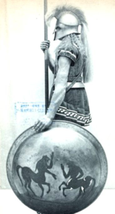 Shield, helmet, spear, "long hair", characteristics of Sparta hoplite.